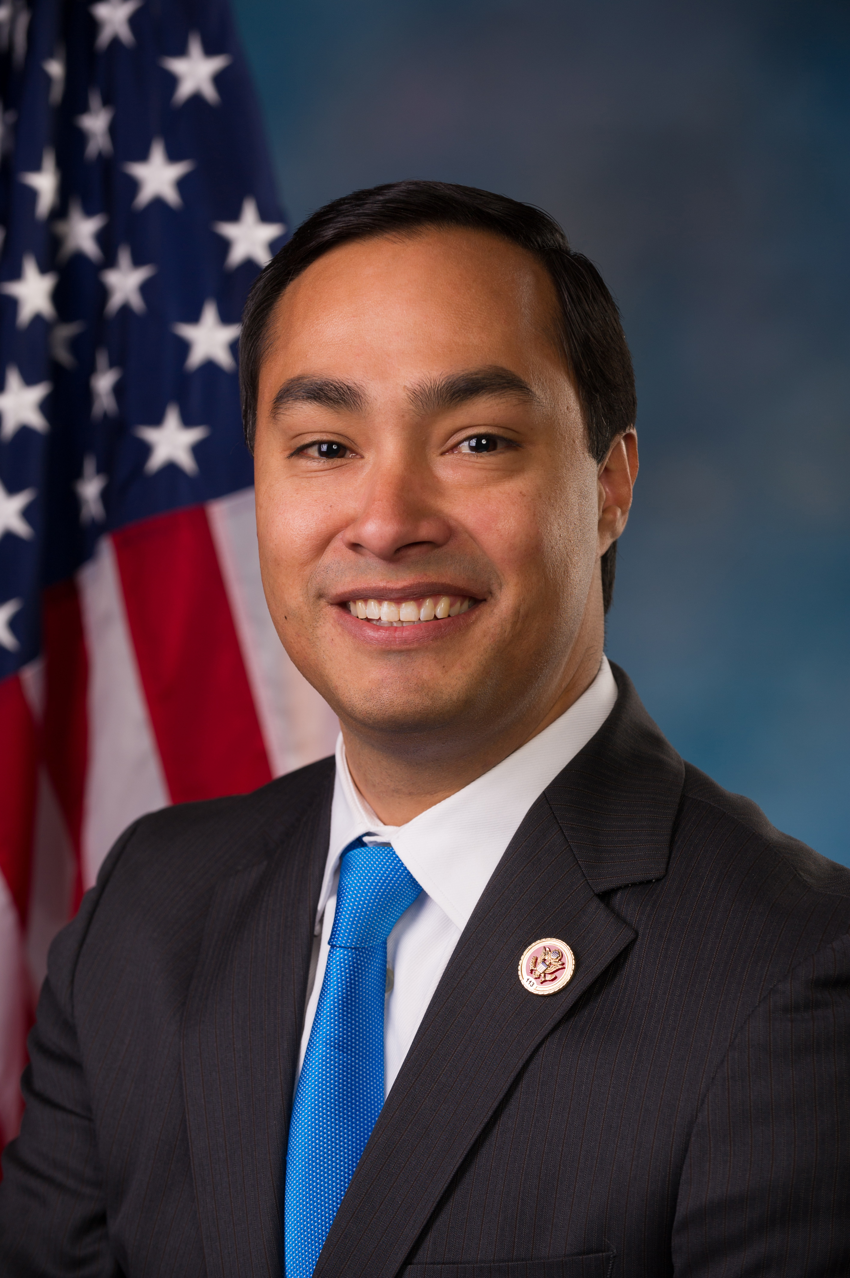 US Rep Joaquin Castro